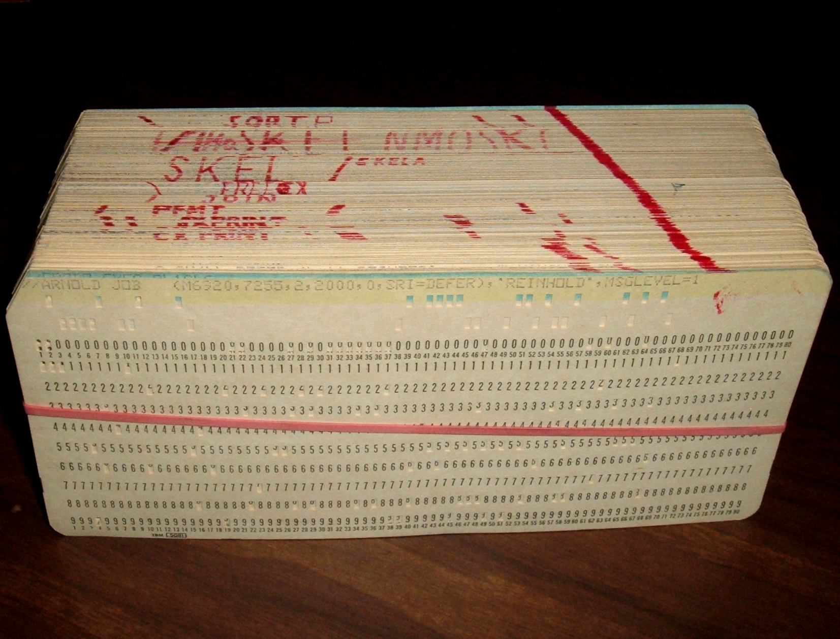 A deck of punched cards comprising a computer program. The deck was created circa 1969 as part of my thesis research. It is written in PL/1 for the IBM 360. Individual subroutines are marked, and the markings show the effects of editing, as cards are added, replaced or reordered. The deck was donated to the MIT Computer Museum in 2006.